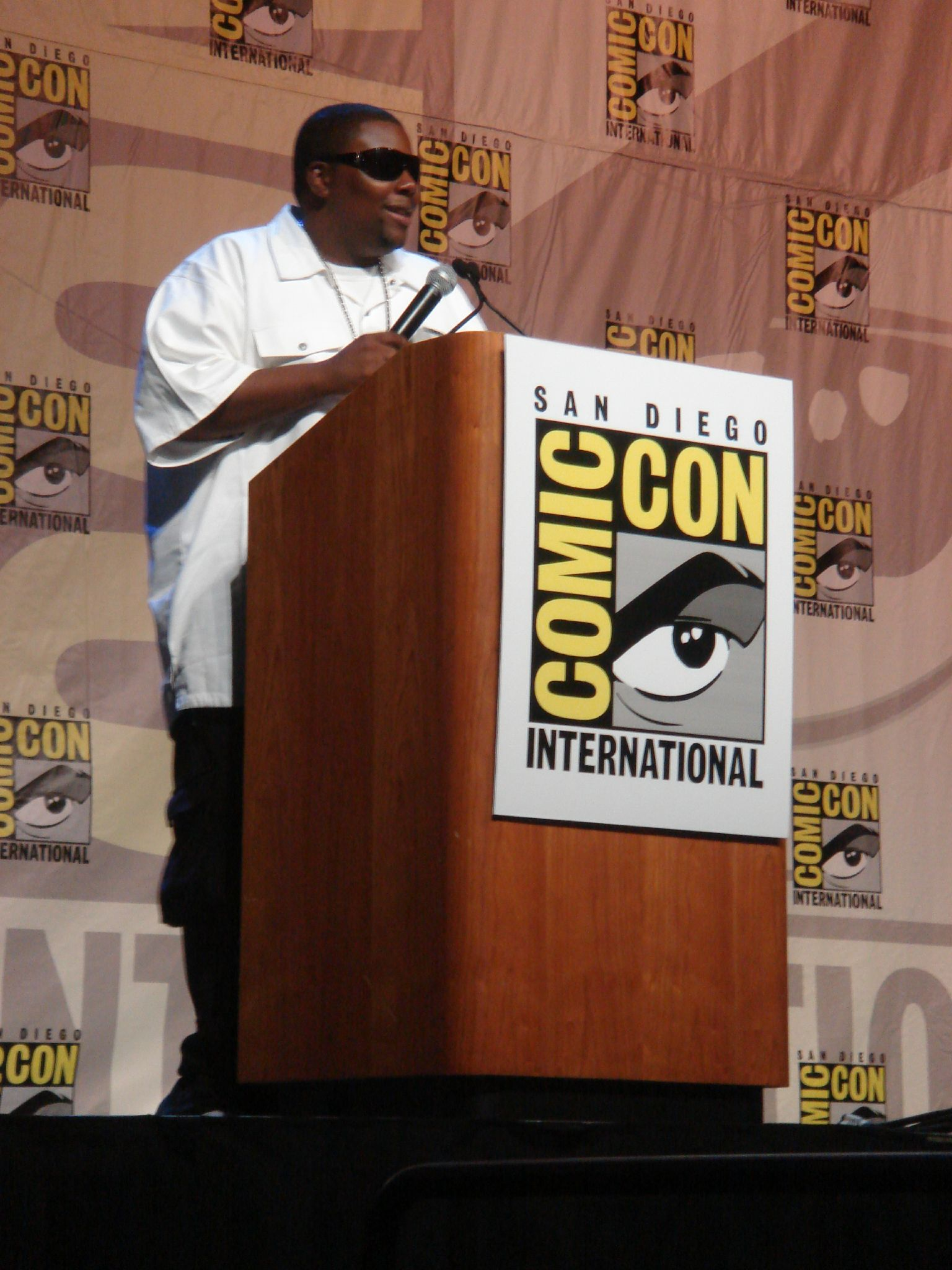 Kenan Thompson at the San Diego Comic-Con, July 21, 2006